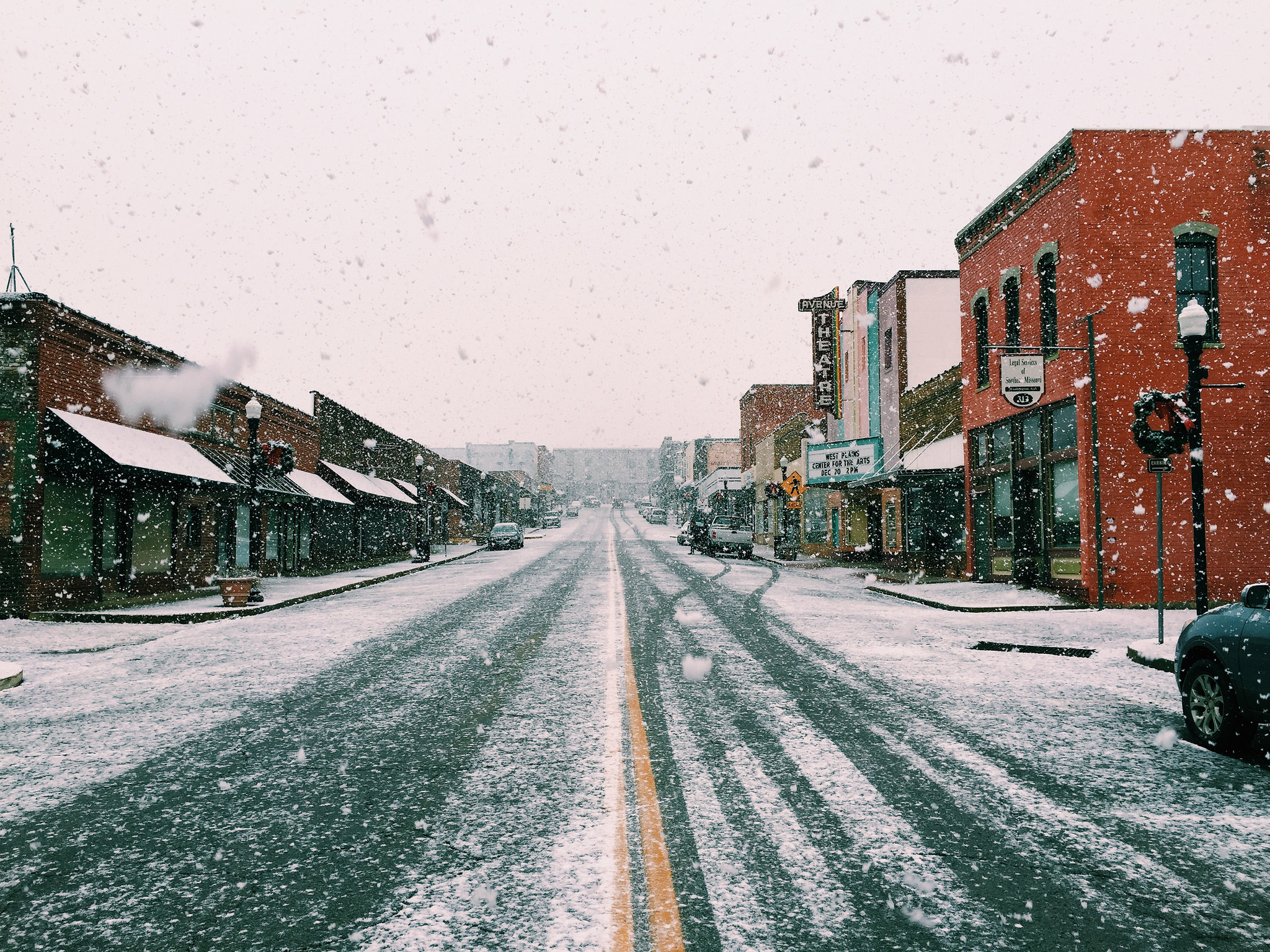 West Plains on a wintery day